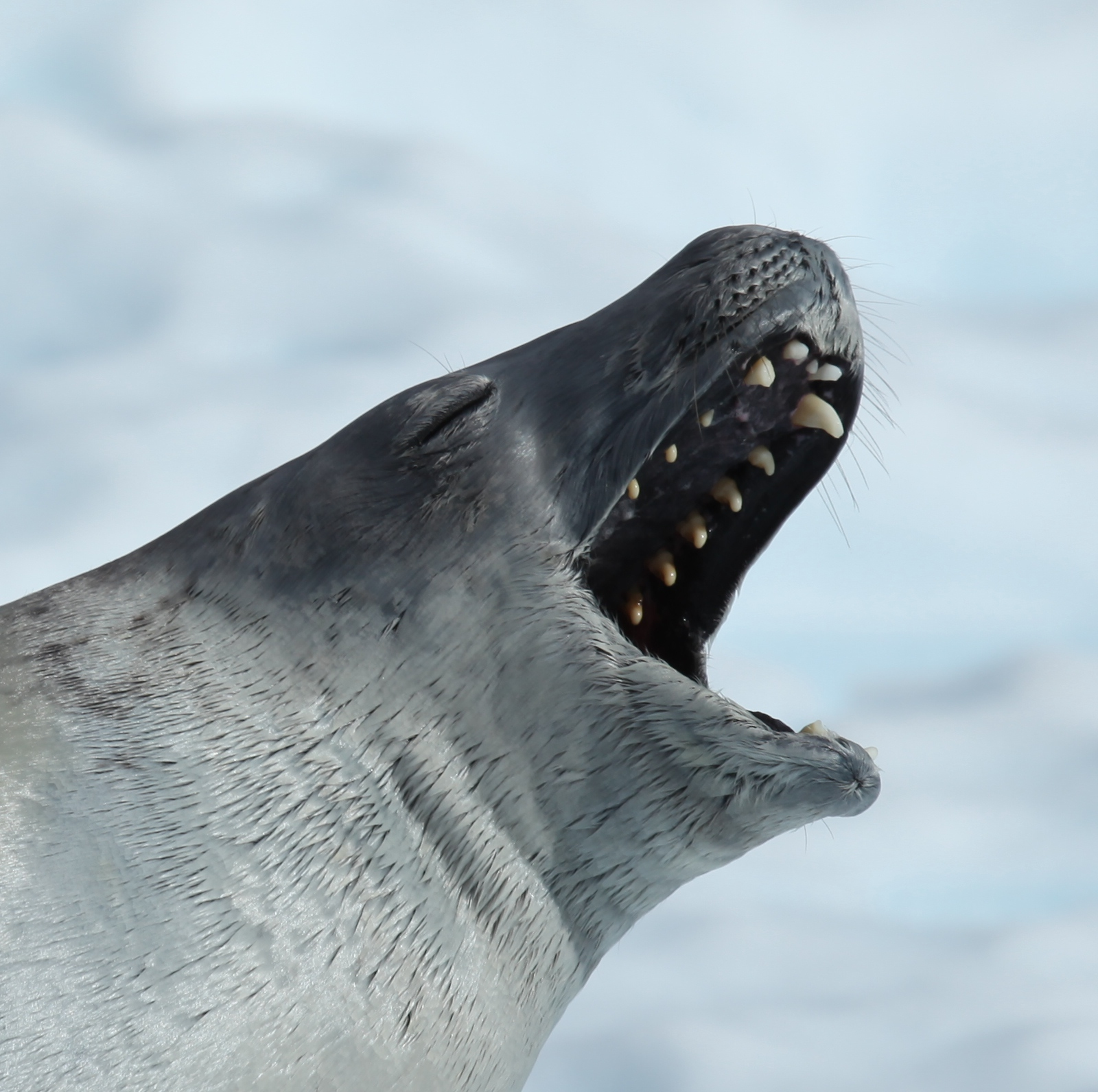 Crabeater Seal yawning in Pléneau Bay, Antarctica